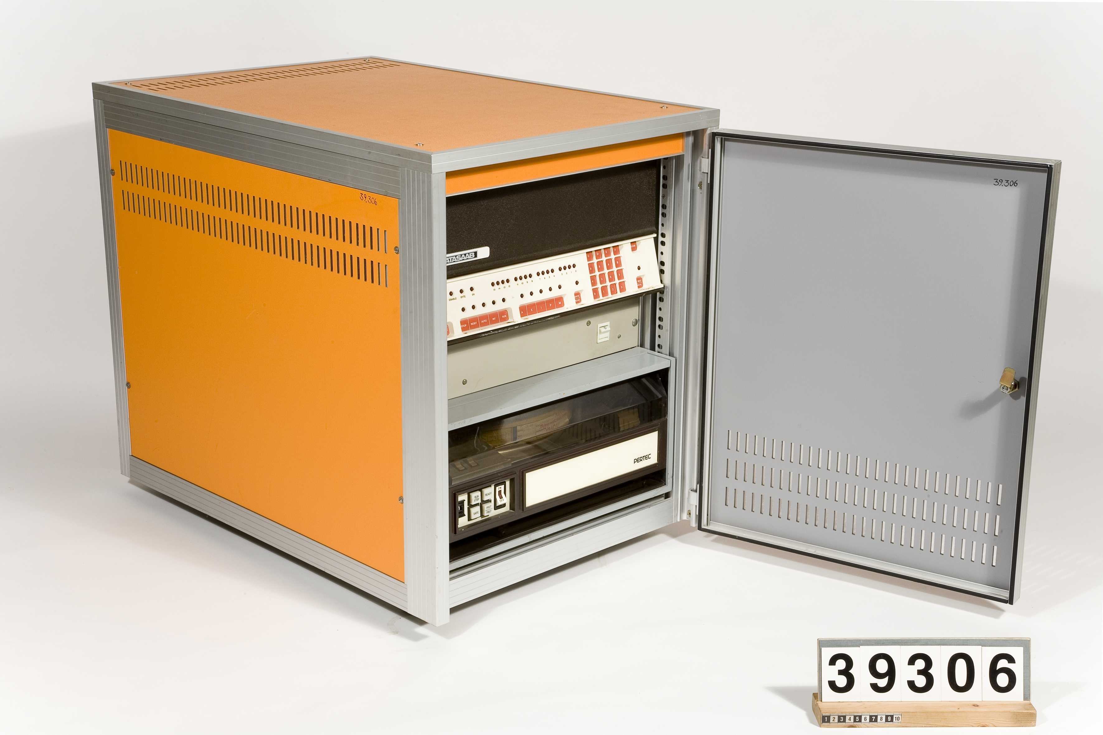 This computer created by Datasaab was used for managing a subscriber registry.